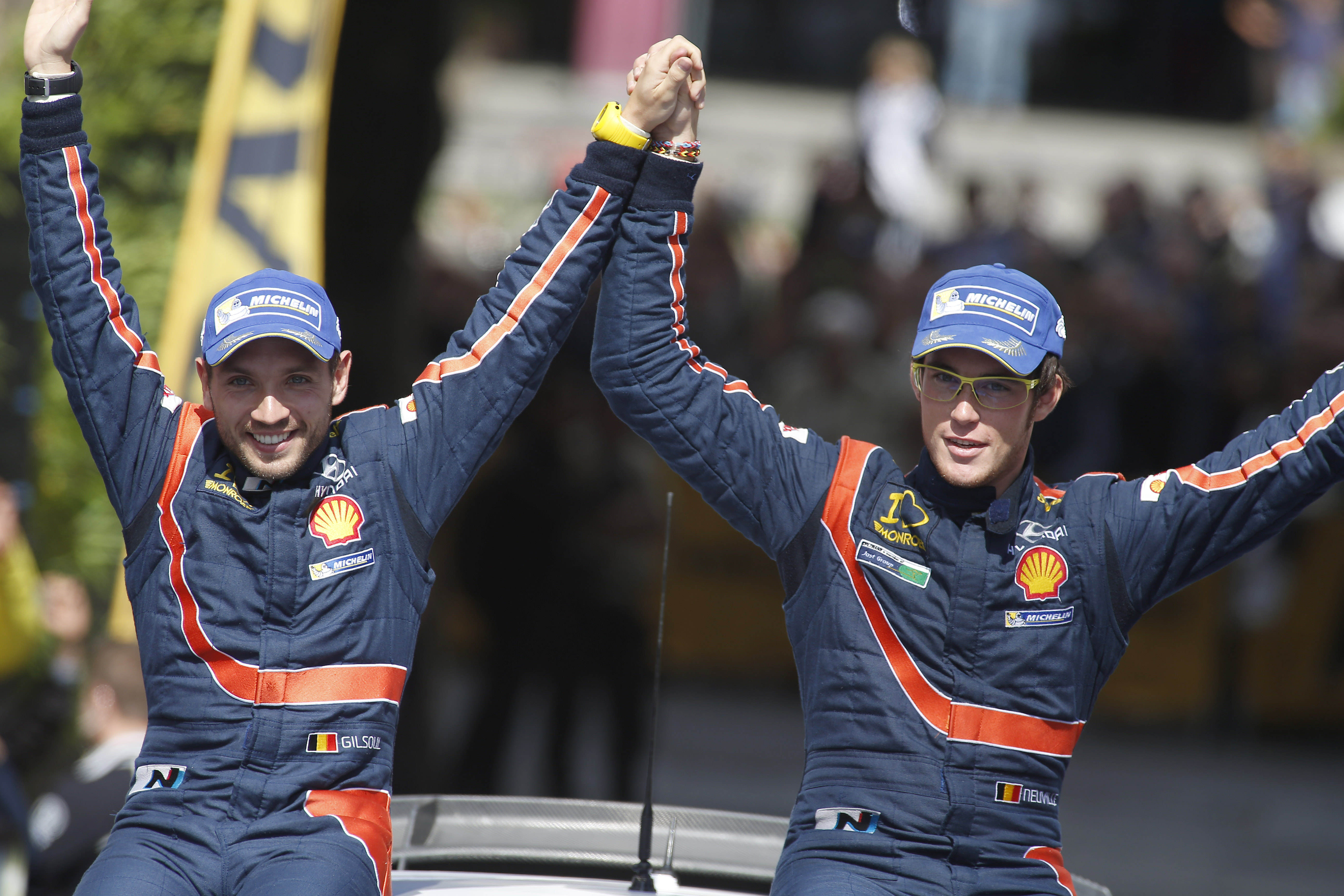 Hyundai Motorsport celebrates, as Thierry Neuville and co-driver Nicolas Gilsoul wins the 2014 Rally Germany (Rallye Deutschland), with Dani Sordo and Marc Martí in 2nd place.